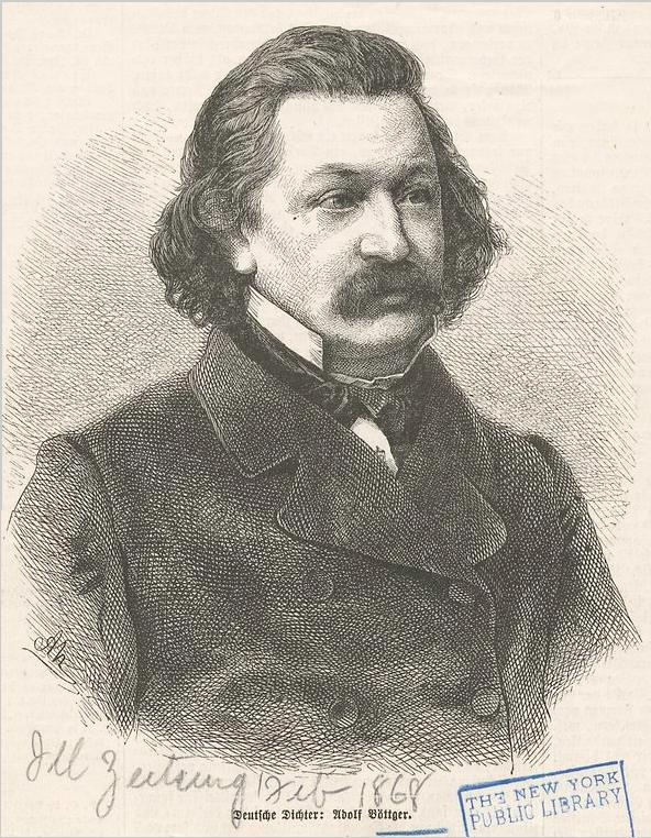 Portrait of Adolf Böttger.